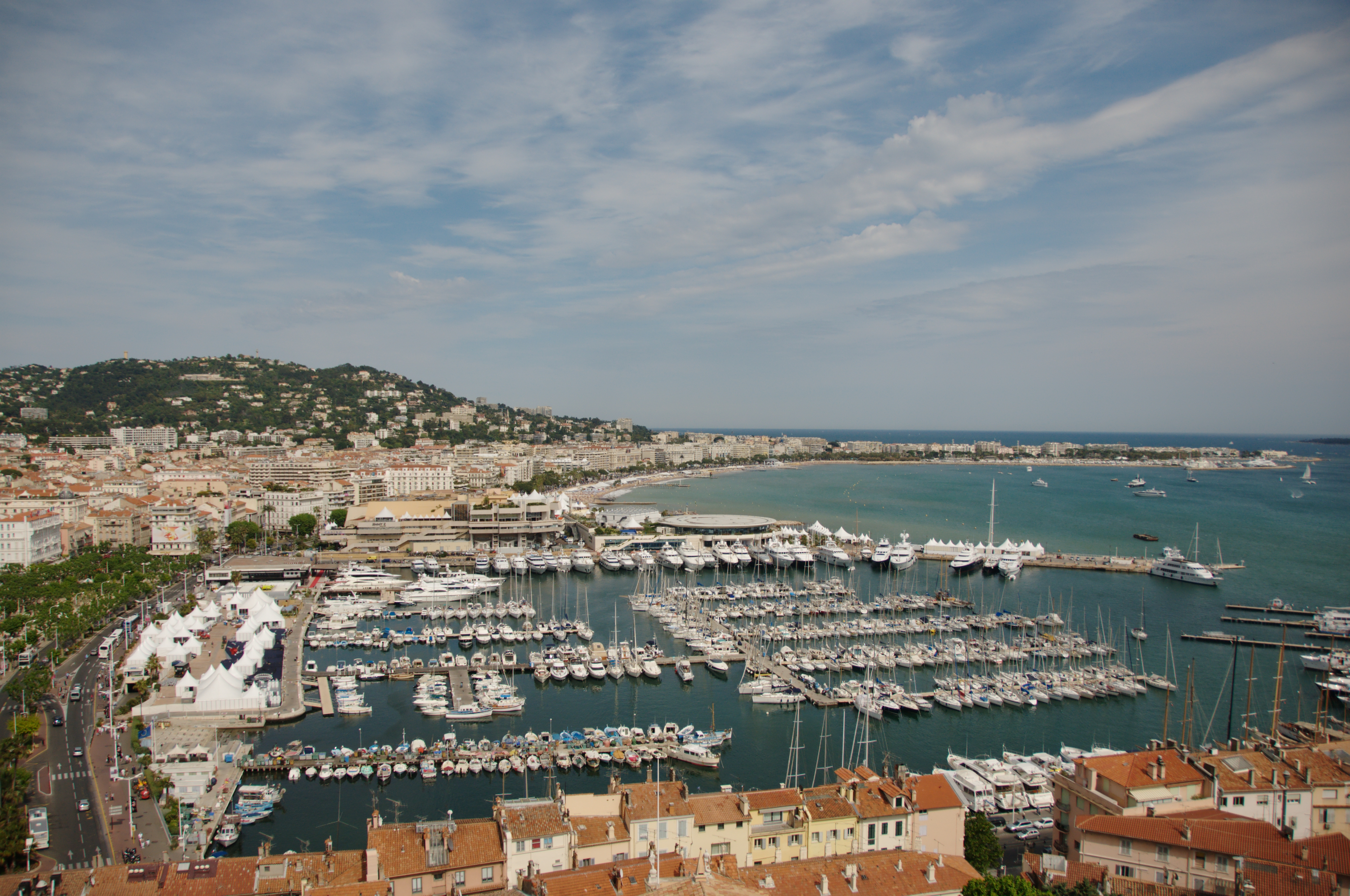 From bot to top : Cannes'Harbor, Palais des Festivals et des Congrès where stand the film festival. The hotels with the Carlton, the Miramar and the Martinez and the Beaches.